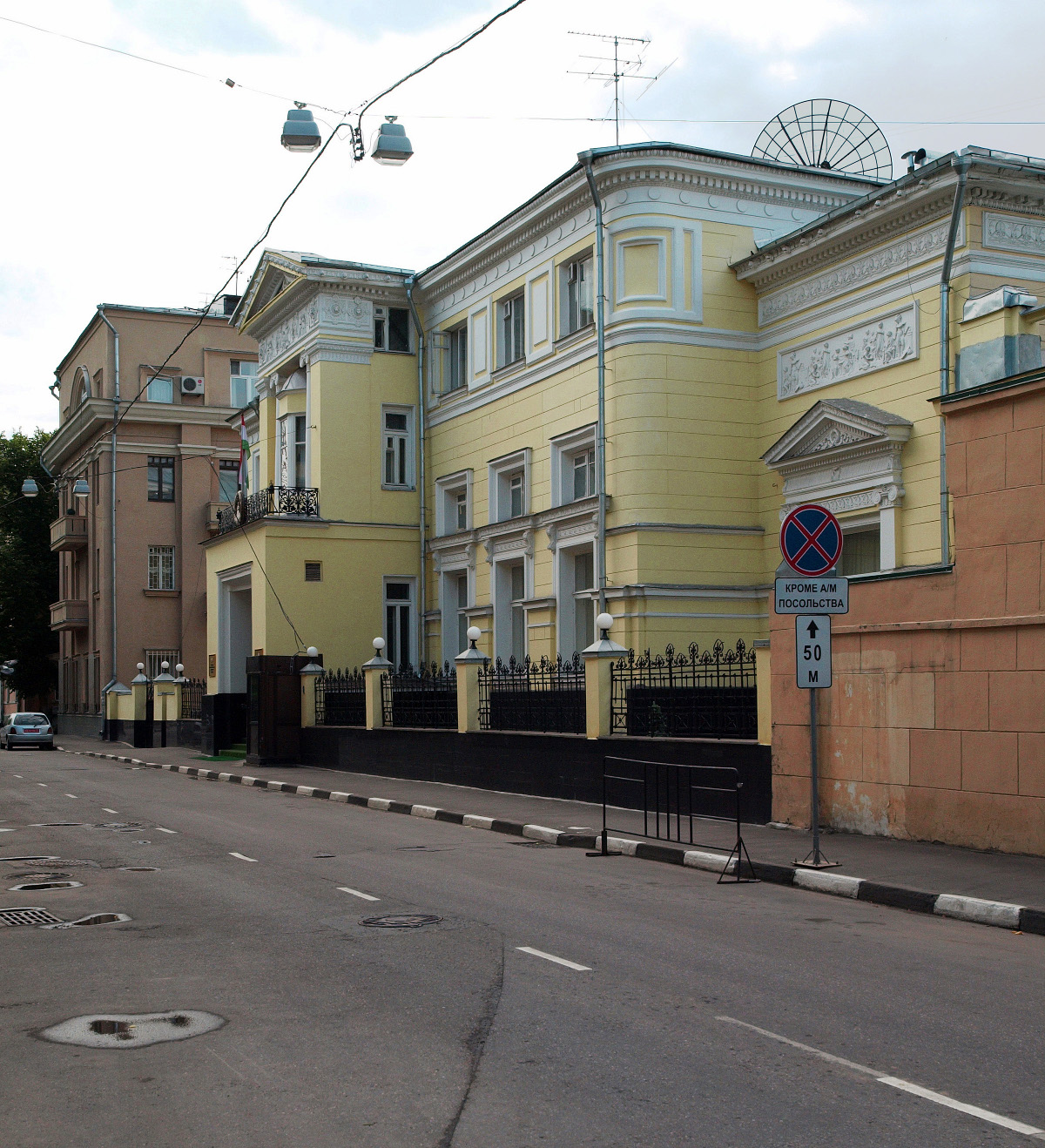 Granatny Lane, Moscow.